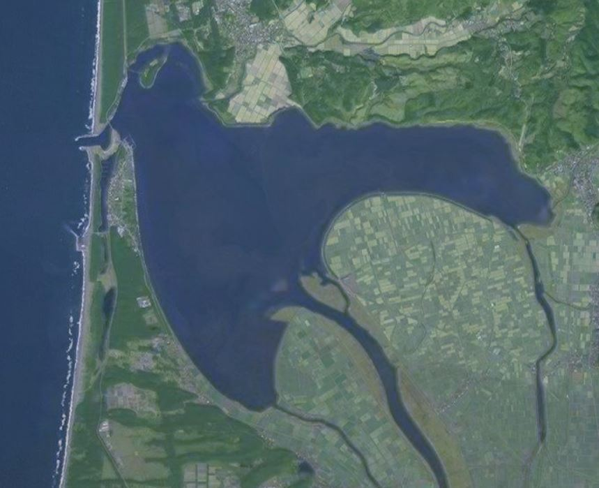 Japan: aerial view of Jūsan lake in Goshogawara (Aomori prefecture).